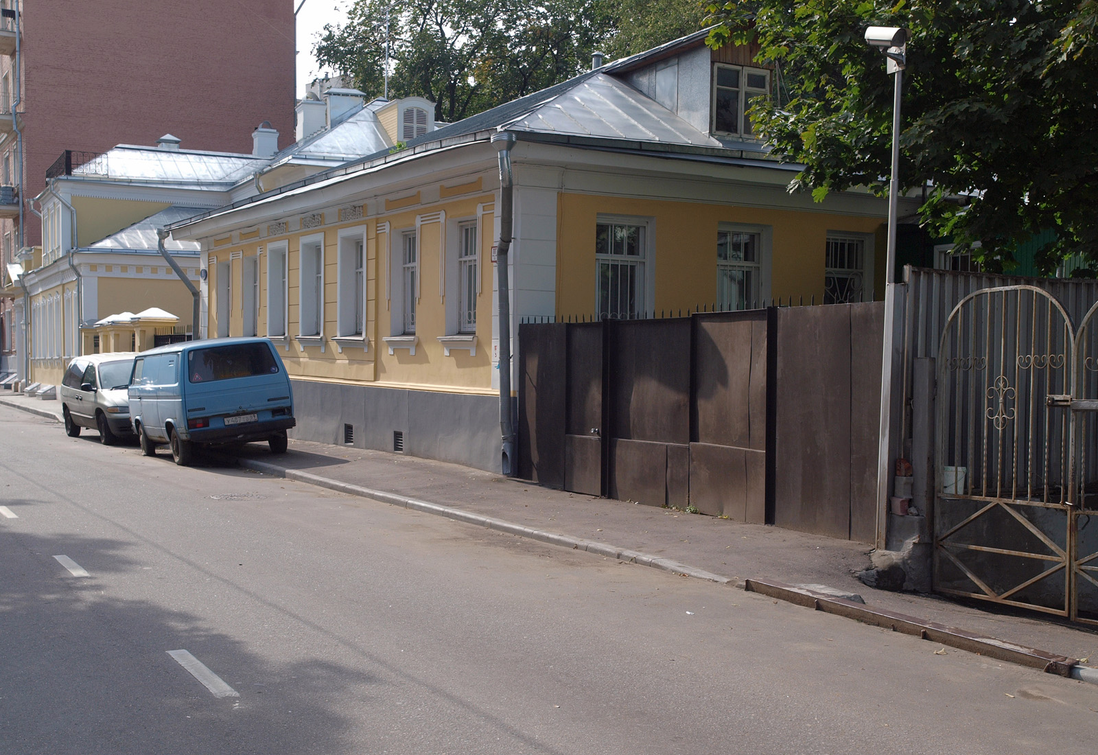 Moscow: Schetininsky Lane, 10. Museum of Vasily Tropinin and his period.